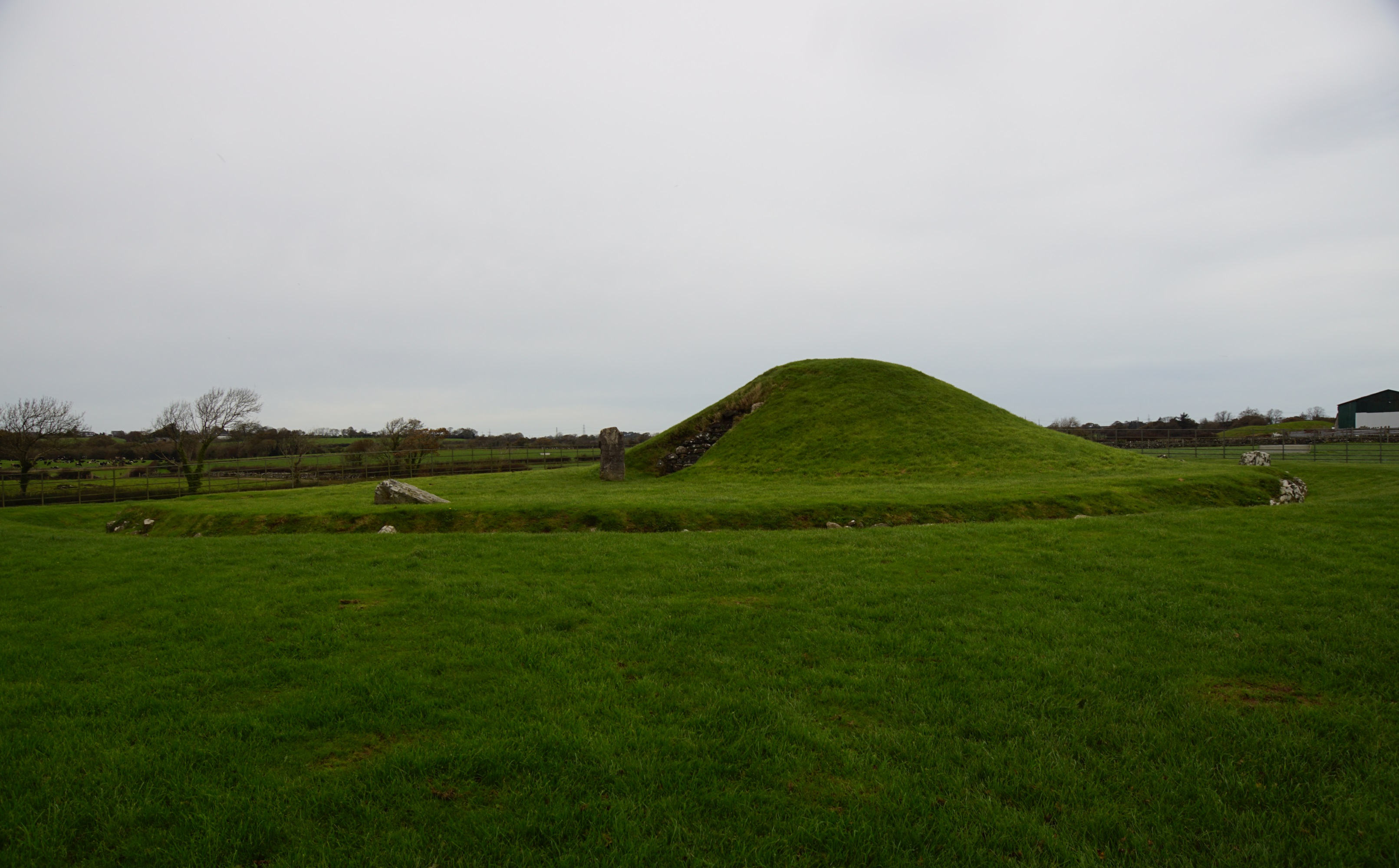 Bryn Celli Ddu Burial Chamber, Anglesey, Wales. Overview from south side.